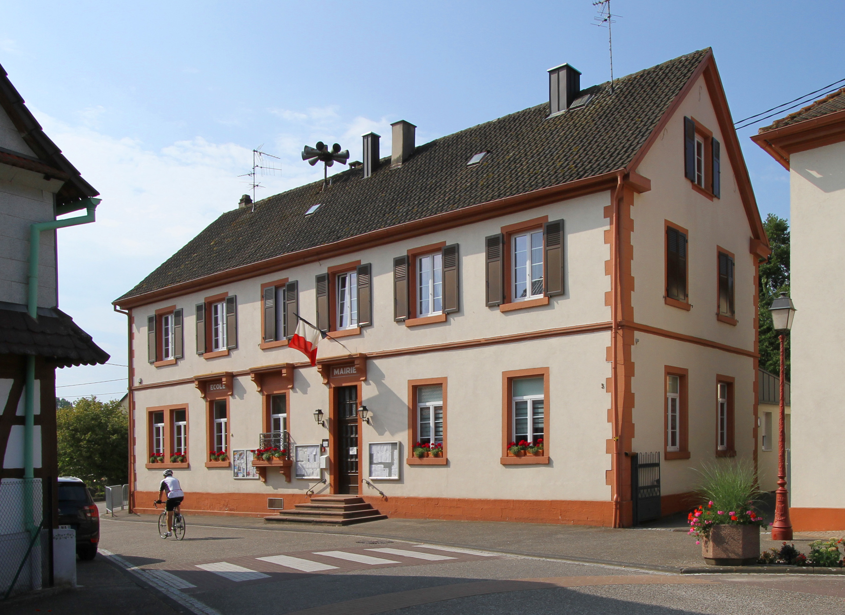 Town hall and school of Forstfeld.